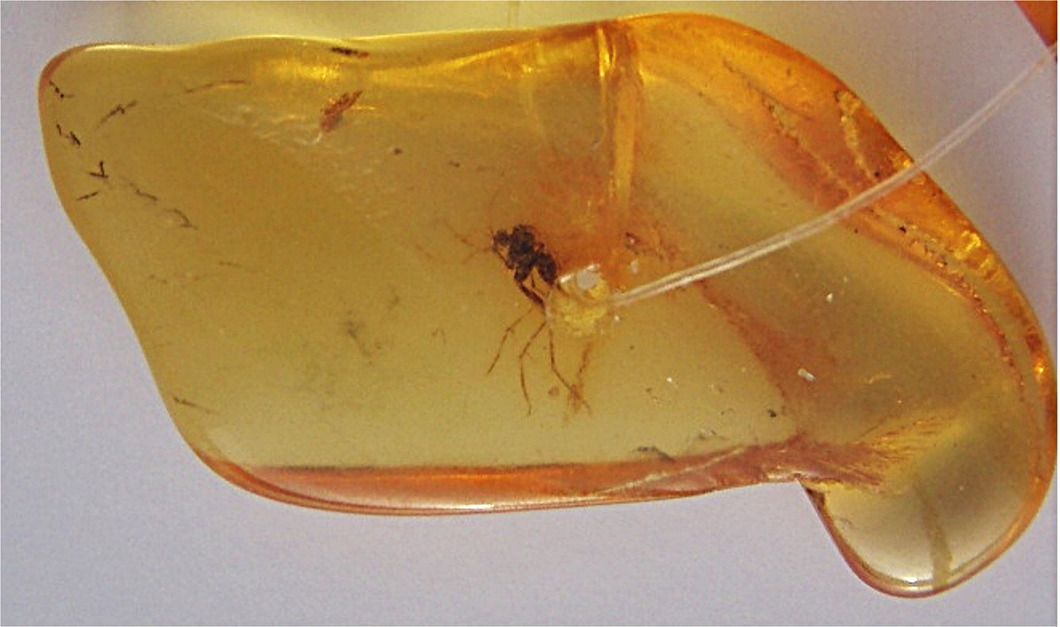 A mosquito in Baltic amber necklace is between 40 and 60 million years old. Please note the mosquito survived the hole, which was drilled to make the necklace.